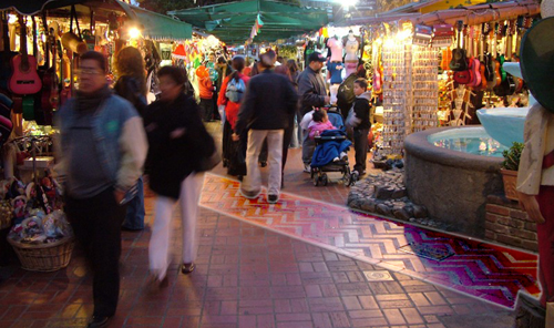 Photo taken by David Moore for the Wikipedia article on Olvera Street. Downloaded ehanced and uploaded by User:Magi Media